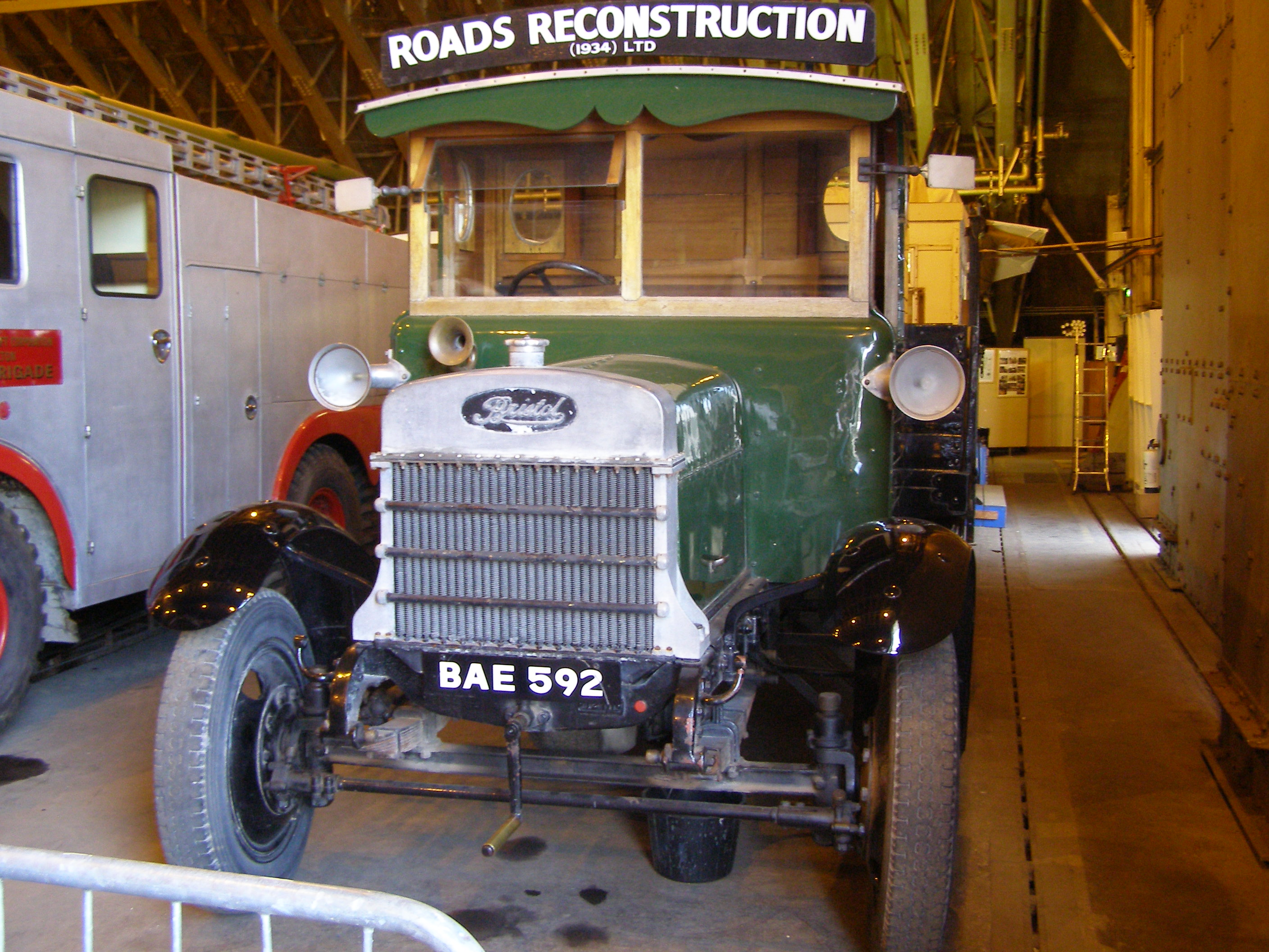 Bristol 4-ton truck on display at the Bristol Aero Collection at Kemble, England